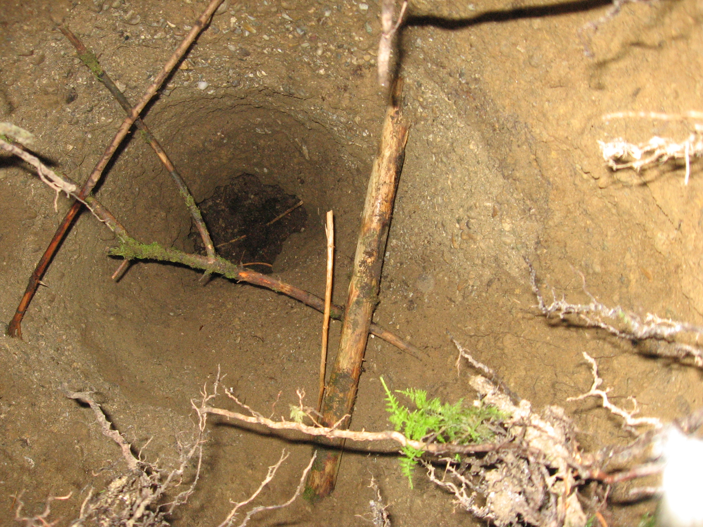 Sinkhole No. 112, discovered at 25. Oct 2013, location: Kienberg (Upper Bavaria)